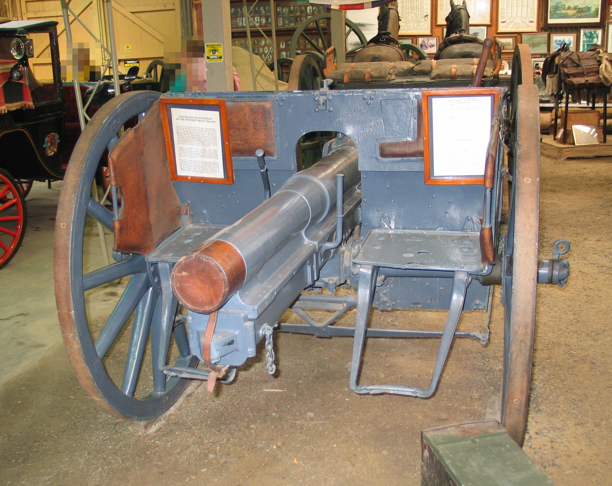 7,7 cm Feldkanone 96 neuer Art (7,7 cm FK 96 n.A.) in Light Horse and Field Artillery Museum, Nar Nar Goon, Victoria, Australia.